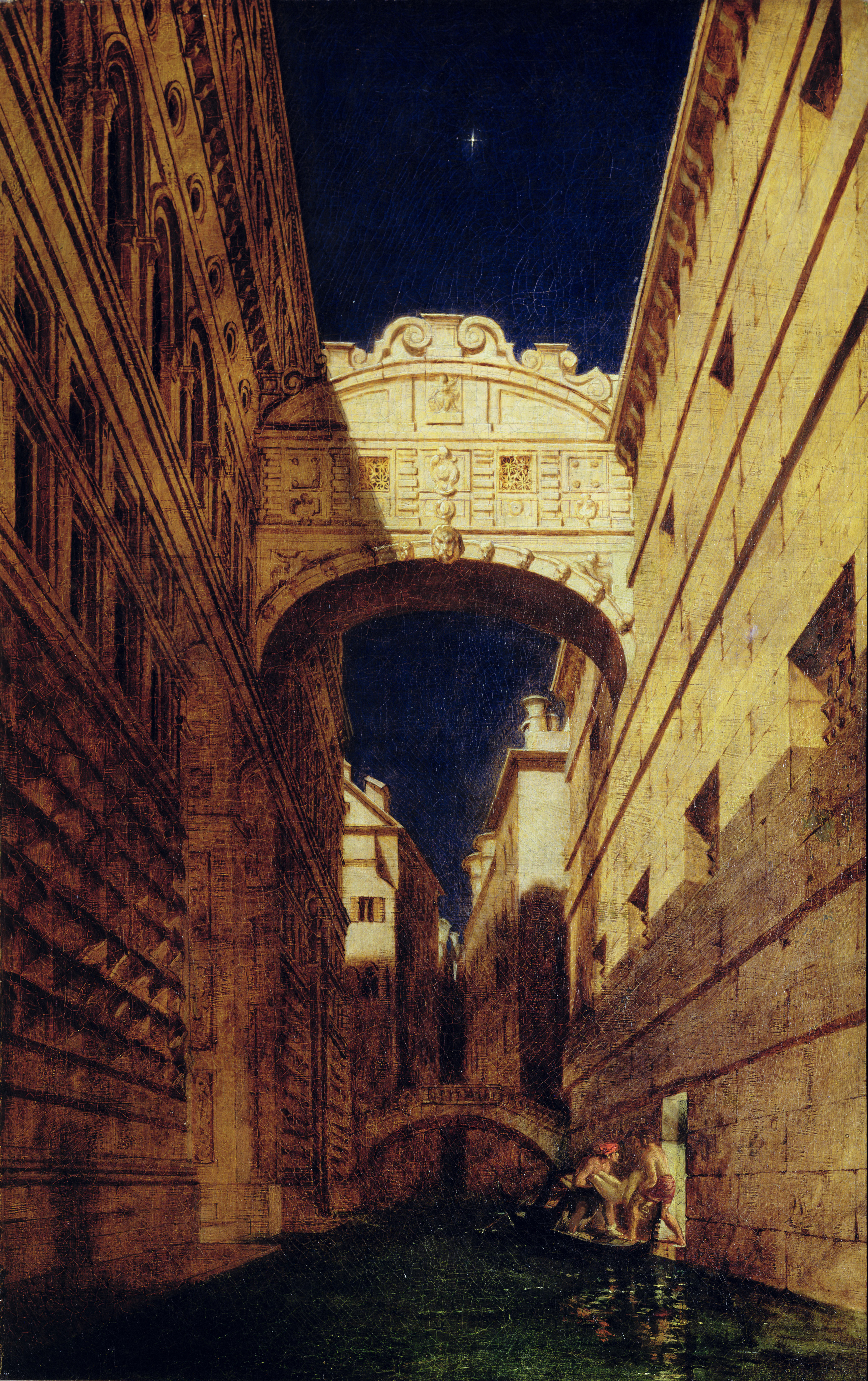 A view at night down the canal, high buildings on either side, the bridge catching the light. To the right two small figures prepare to deposit a corpse in the canal.